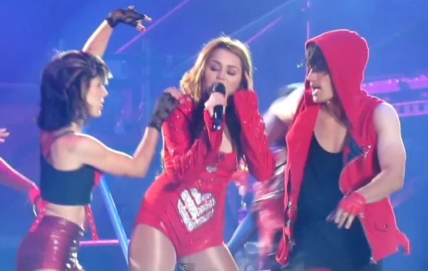 Who Owns My Heart (Gypsy Heart Tou 2011)